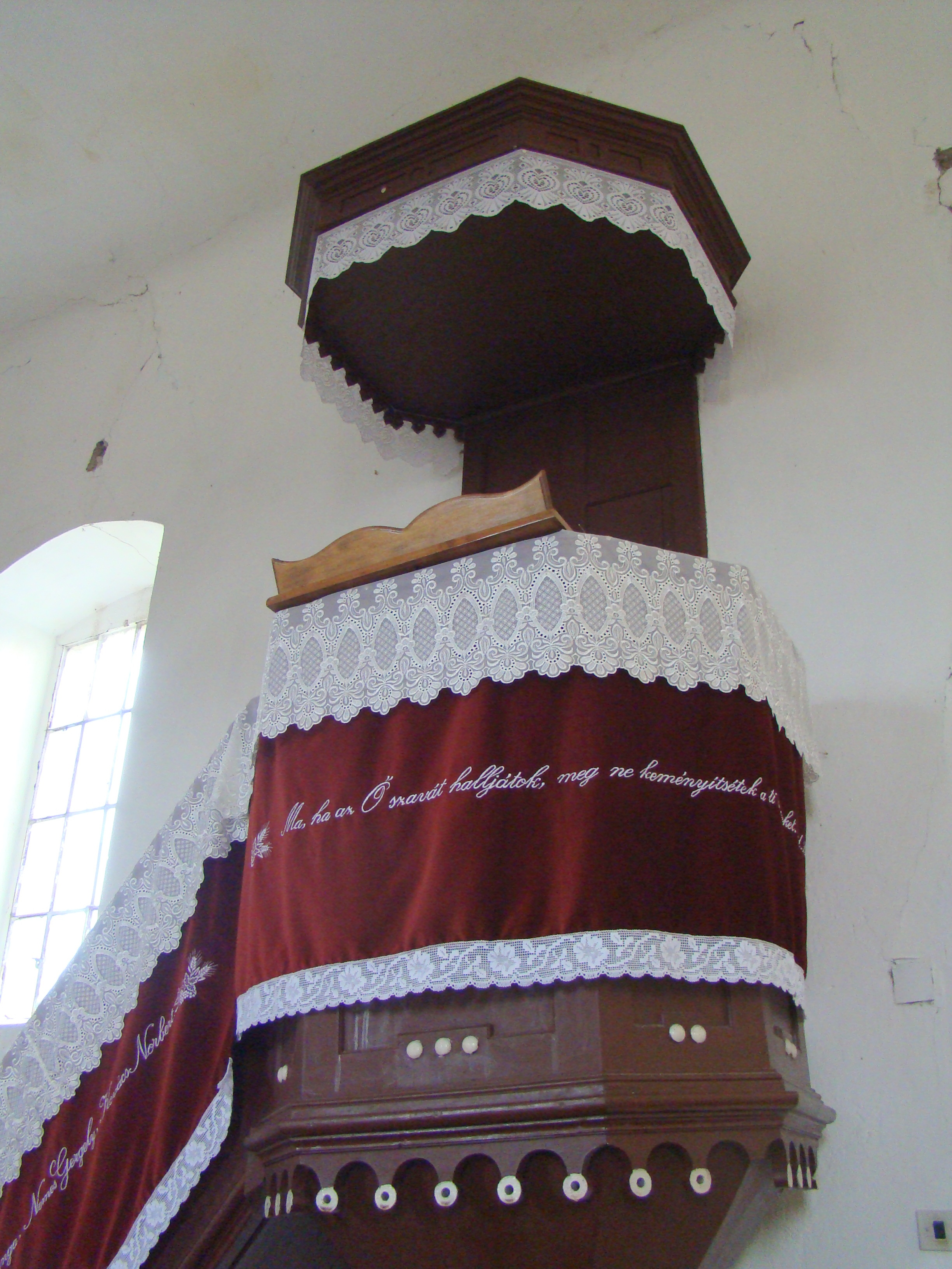 Reformed church in Parhida (Pelbárthida), Bihor county, Romania